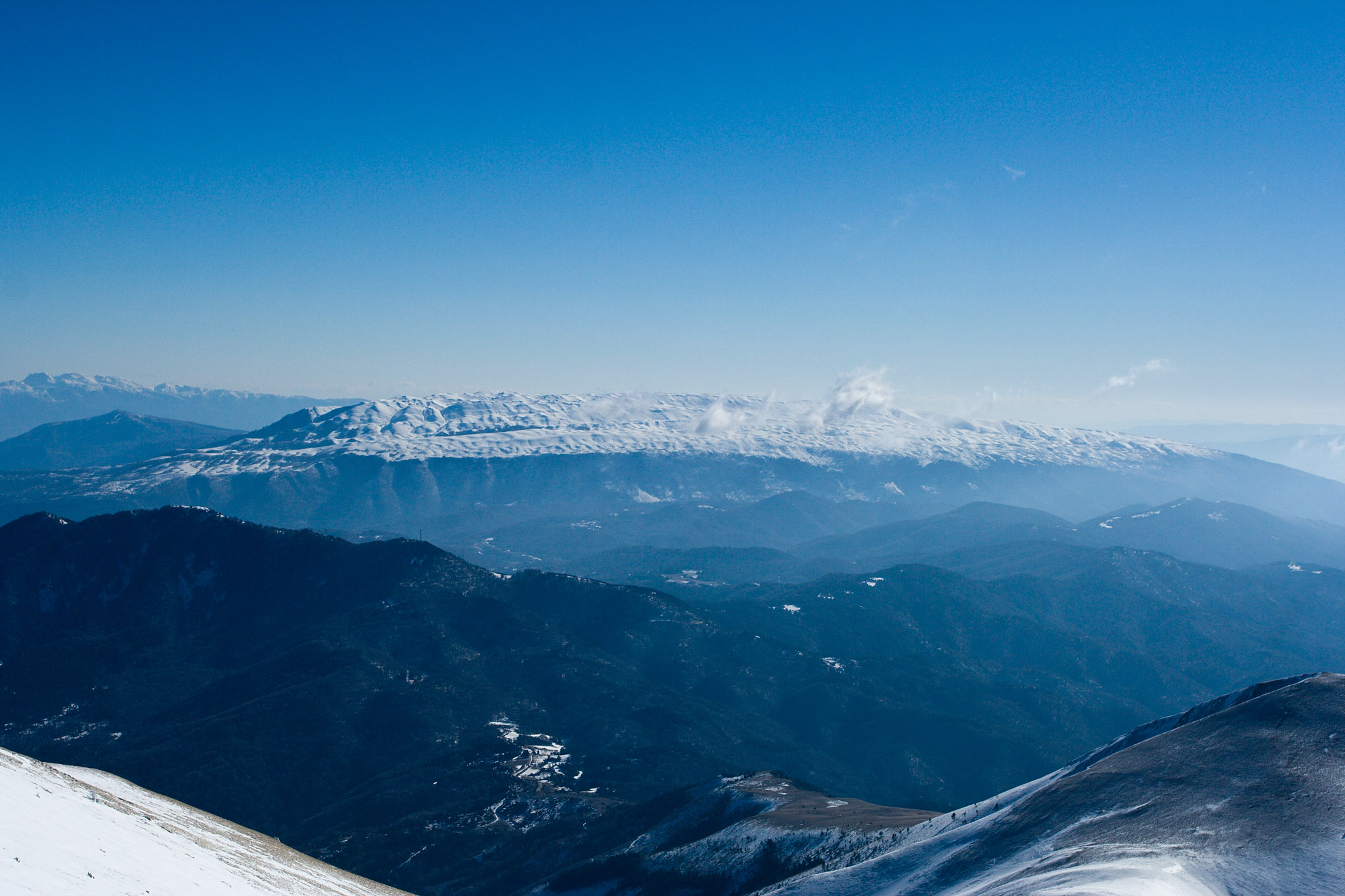 Sminitsa (Menoikio) - a mountain in Northern Greece